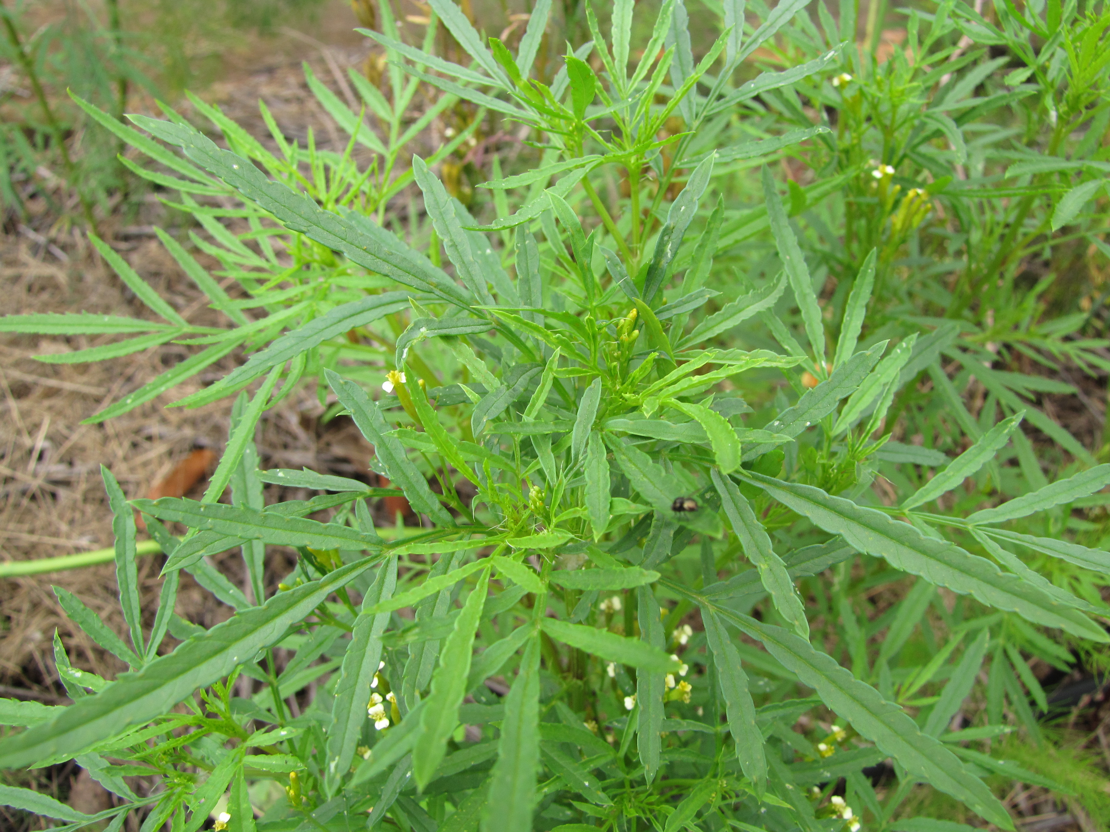 Tagetes minuta (Southern cone marigold, stinkweed, stinking Roger, muster Jonh Henry) Leaves at Ulupalakua Ranch, Maui, Hawaii. June 08, 2012 #120608-7387 Image Use Policy